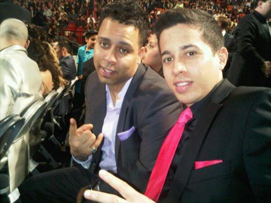 ALEX KYZA